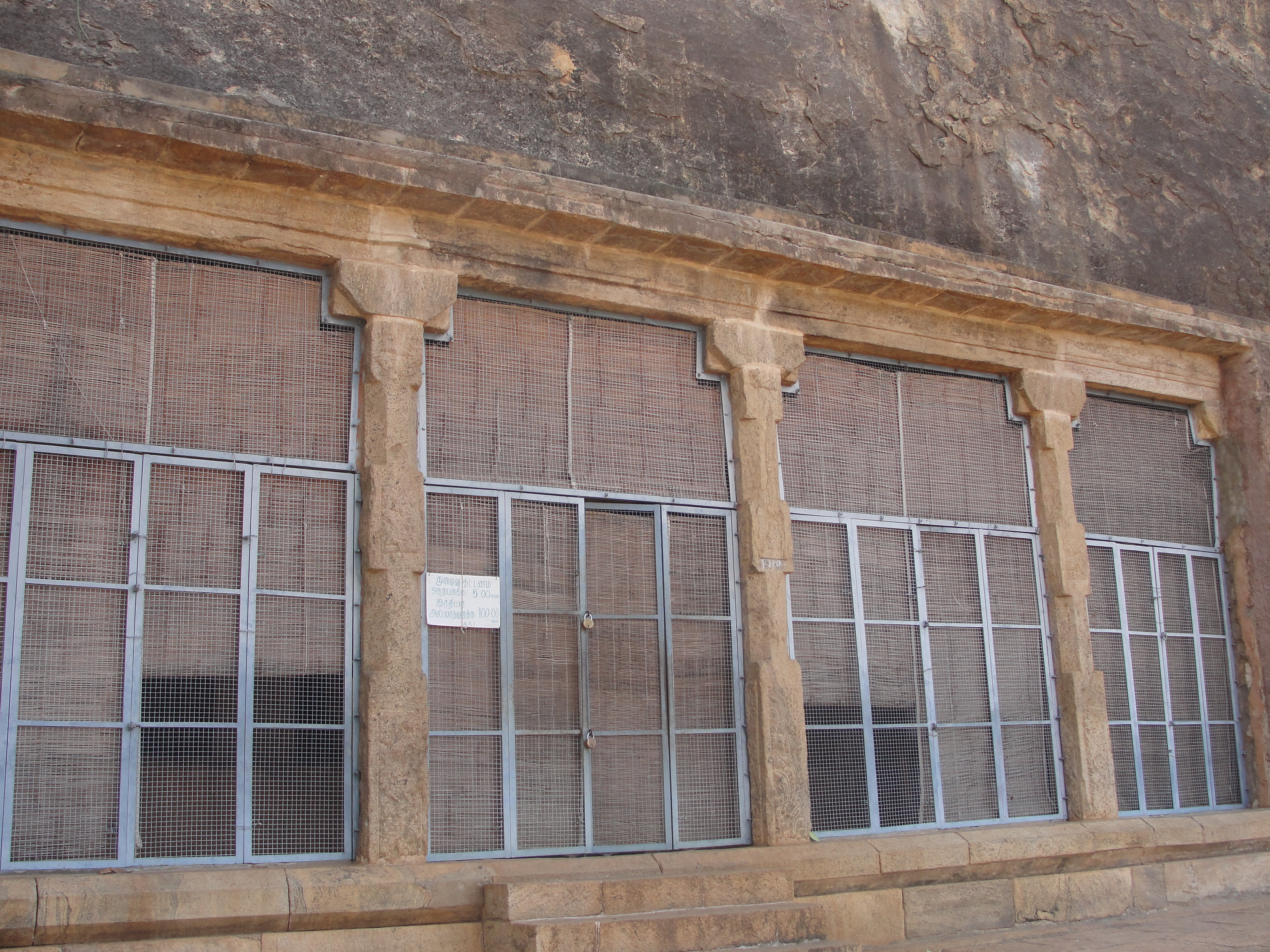 Chittannavasal cave temple